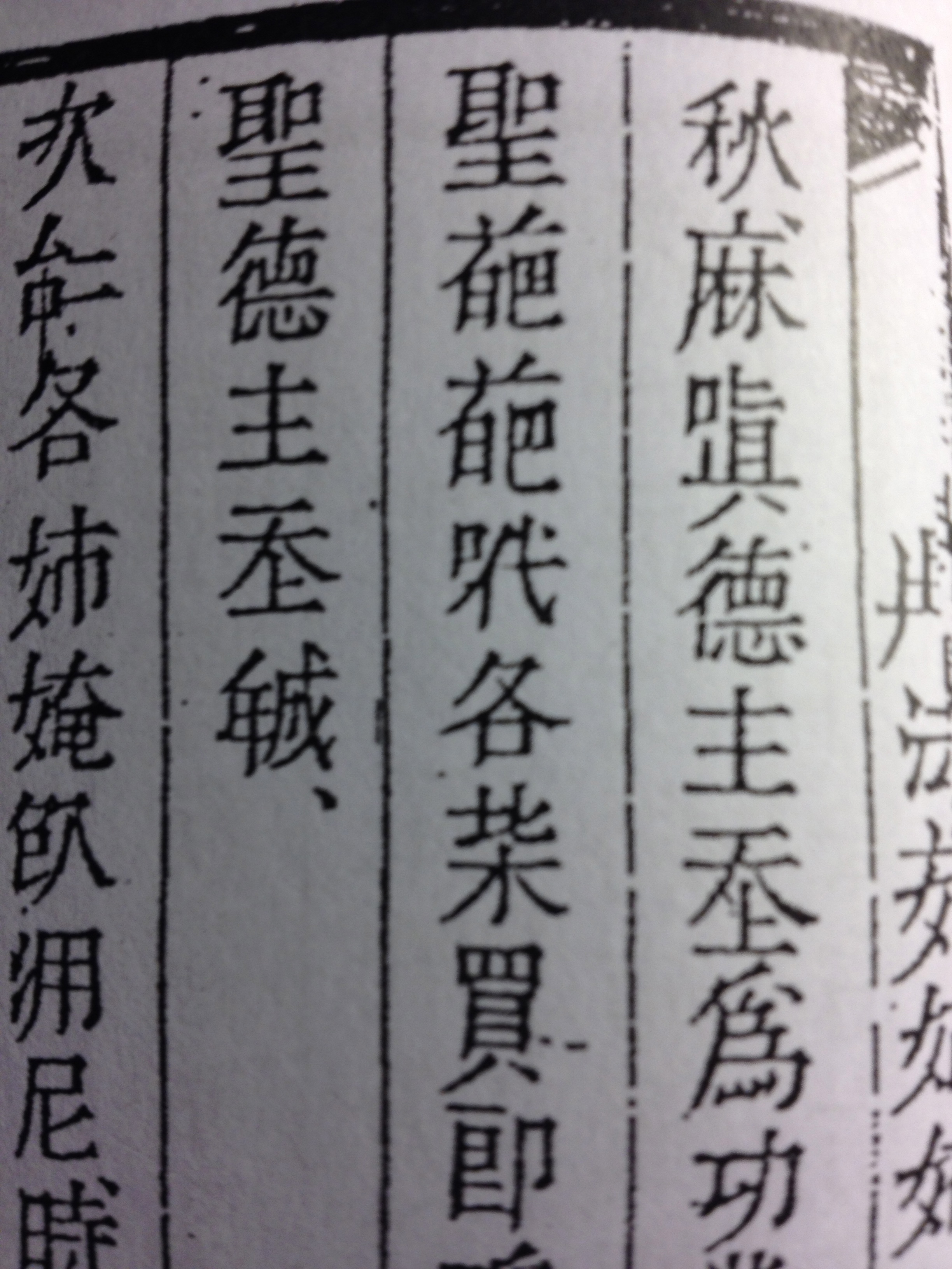 1869 Chu Nom printing of the Regulations of the Order of the Lovers of the Holy Cross